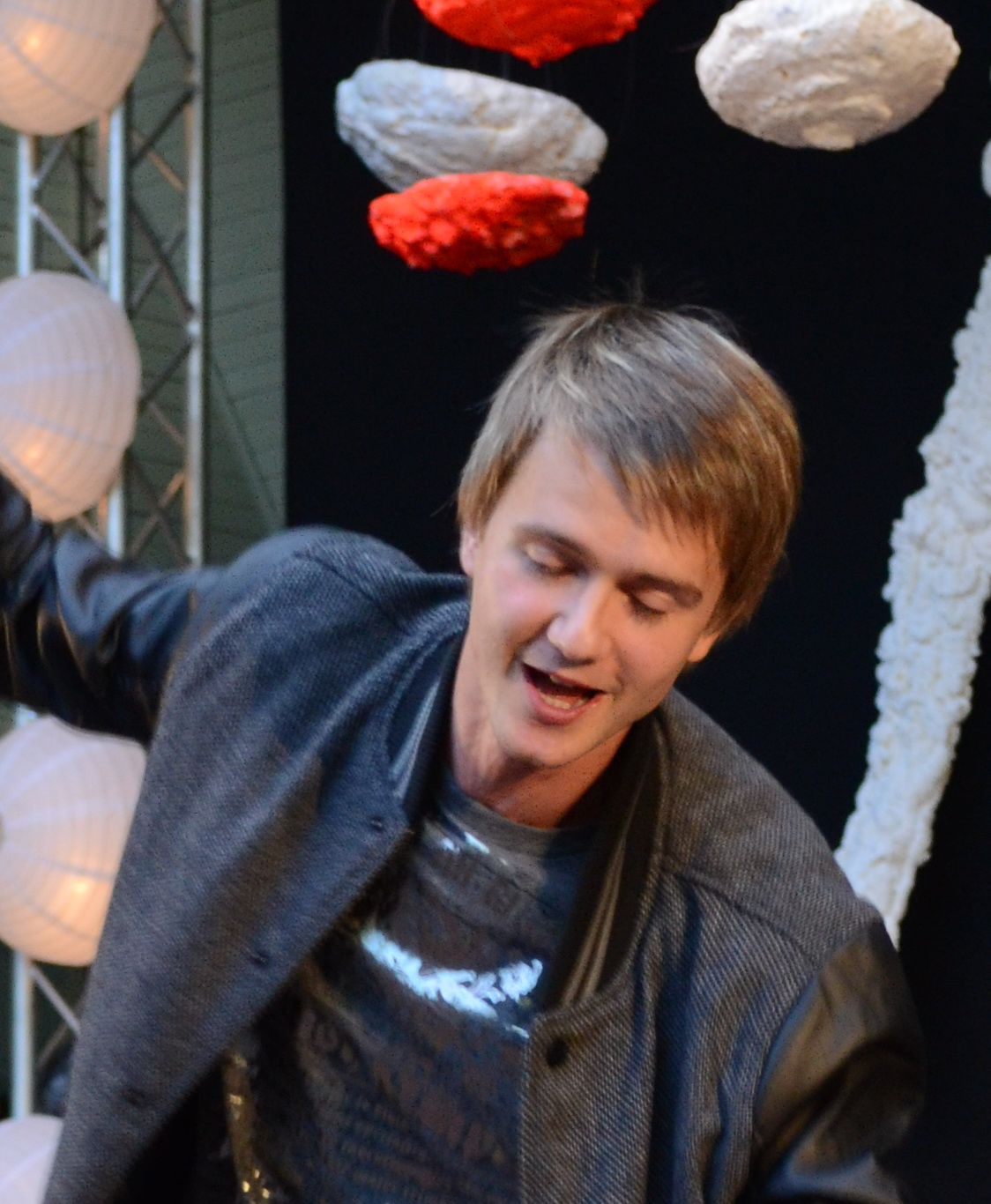 Nikolajs Puzikovs